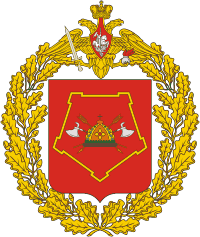 Emblem of Siberian Military District